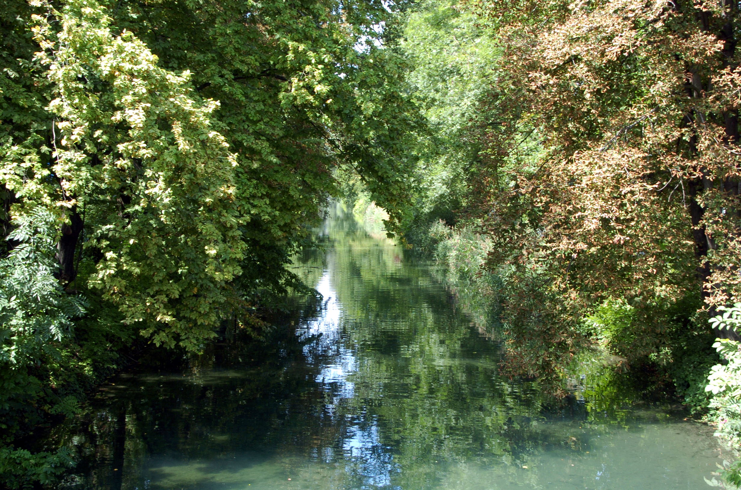 Glanfurt river near the Rosentaler Strasse, 12th district "Sankt Martin-Waidmannsdorf" of the Carinthian capital Klagenfurt, Carinthia, Austria